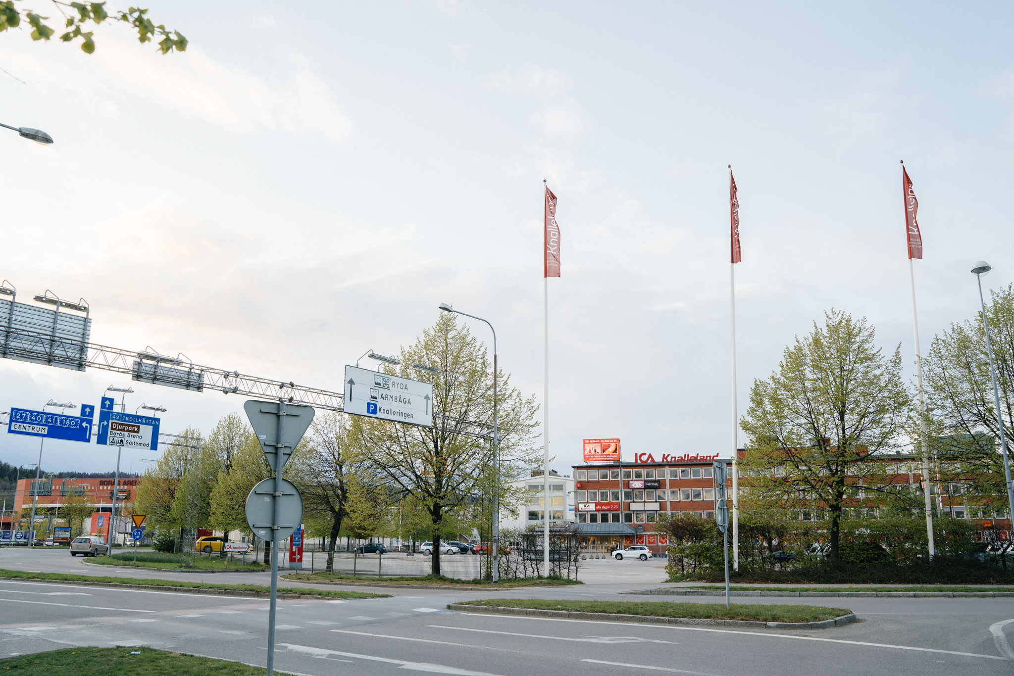 The shopping centre Knalleland located in Borås, Sweden.